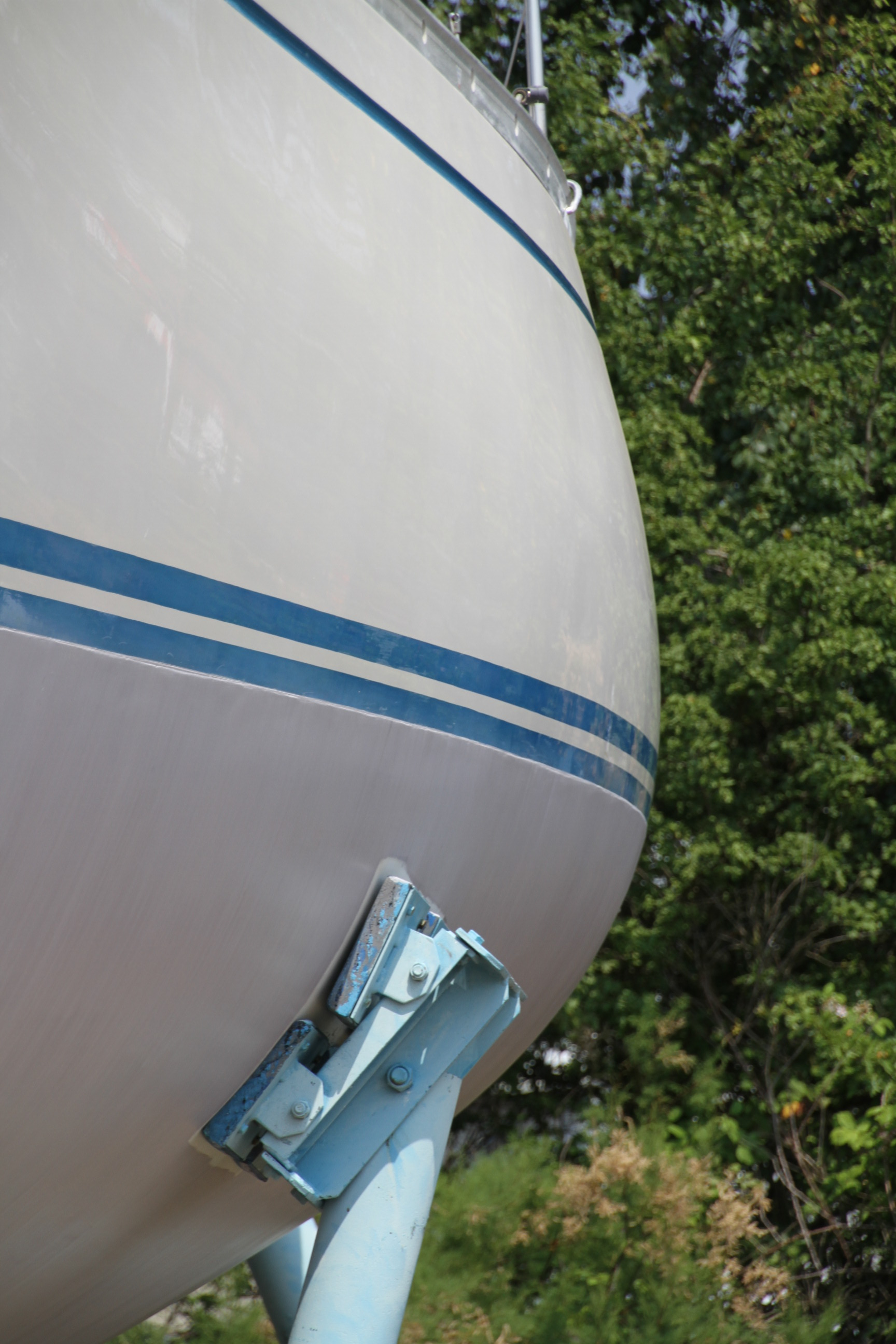 Swan 411 Hull Shape